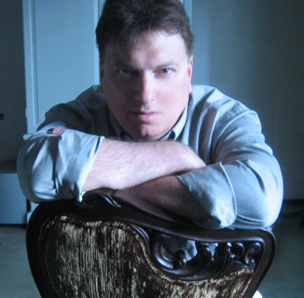 LaTour photographed during voice over session.